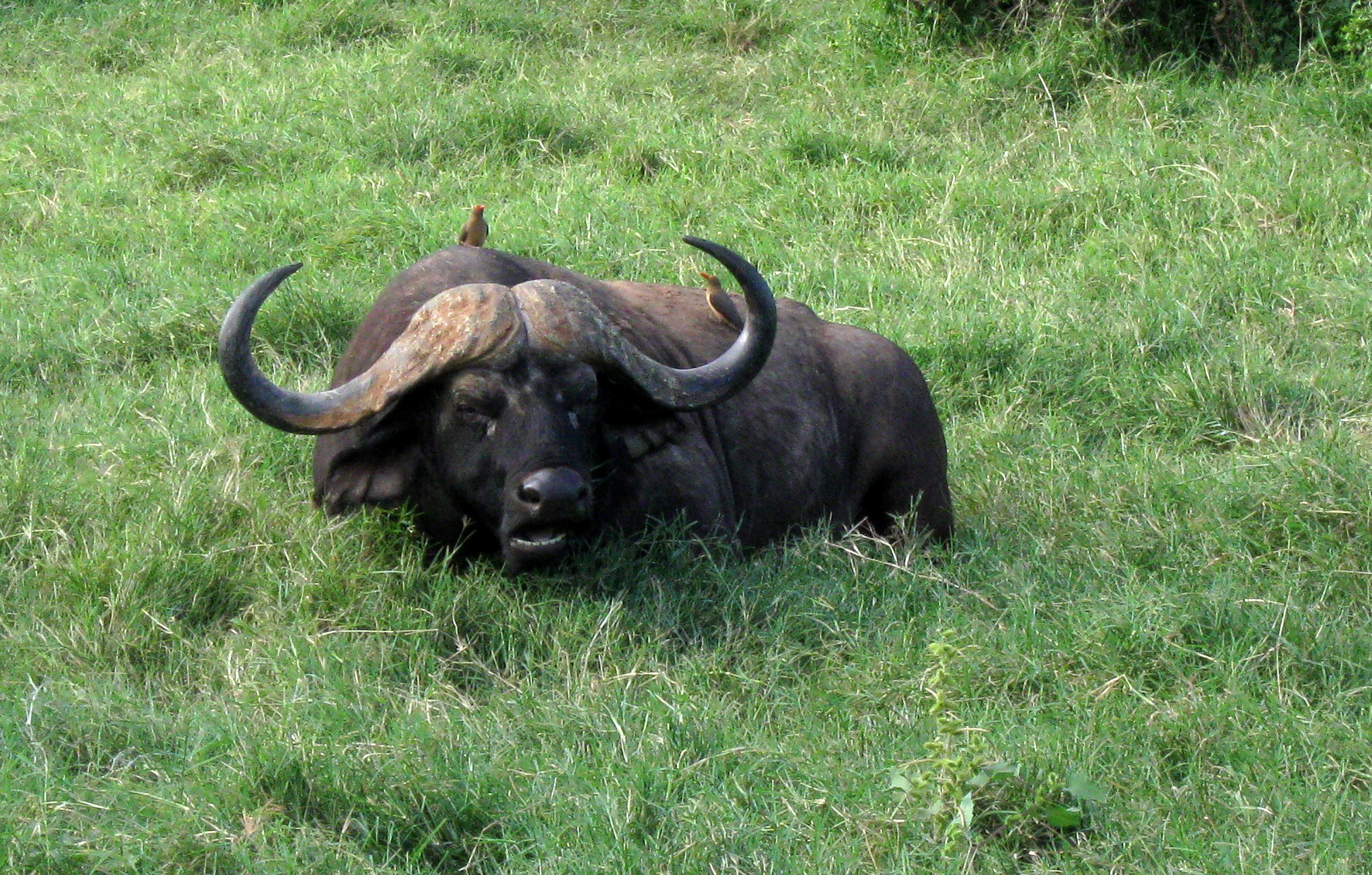 Old buffalo in the grass in Kenya.